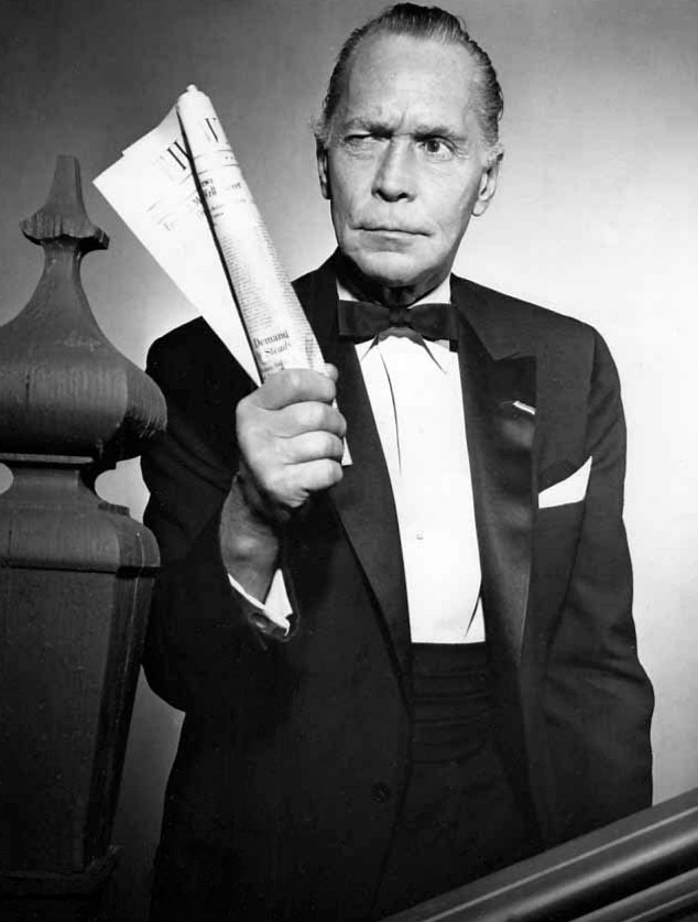 Photo of Franchot Tone from The Twilight Zone episode The Silence.